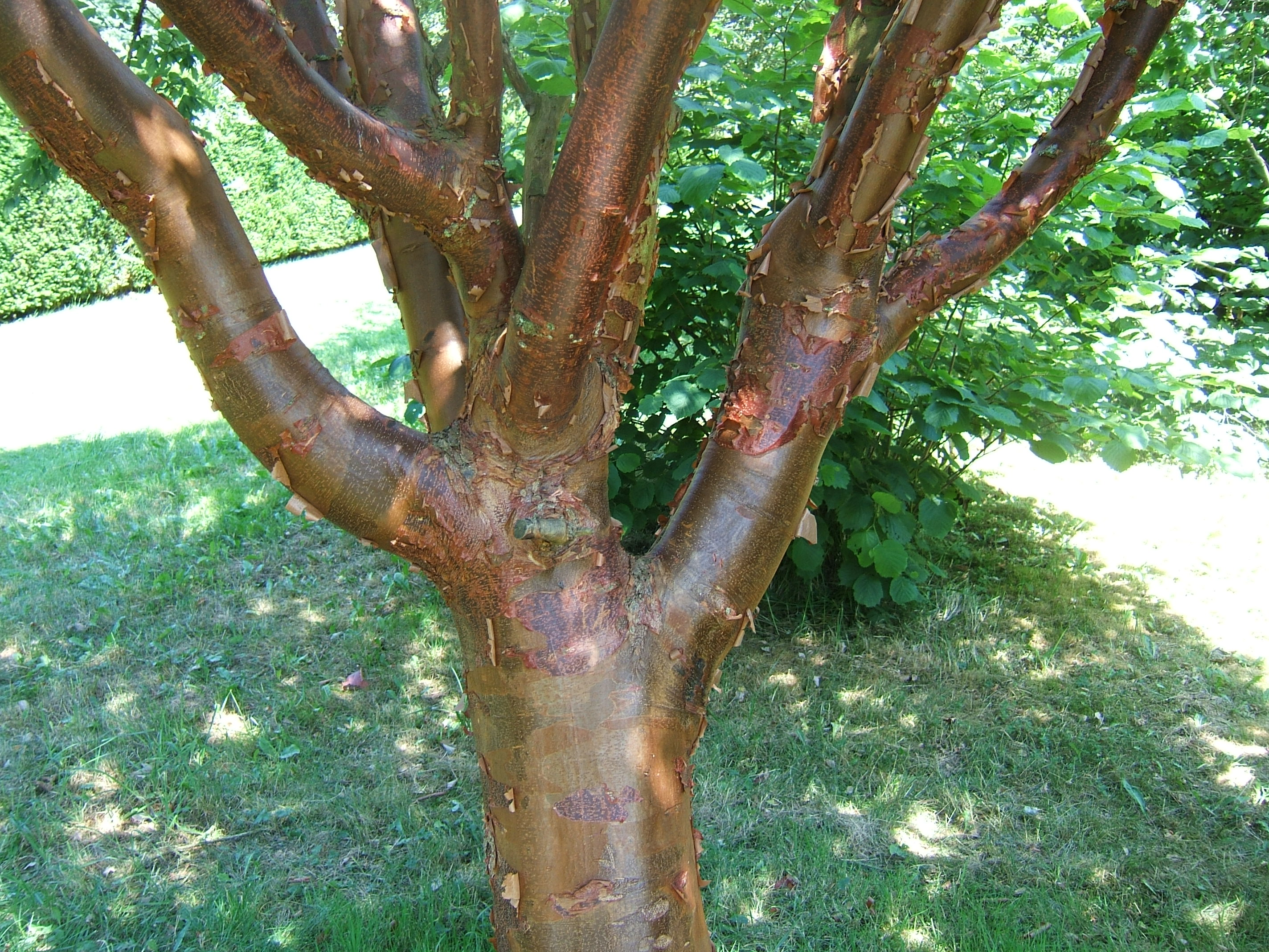 Acer griseum, cultivated, Northumberland; July 2006